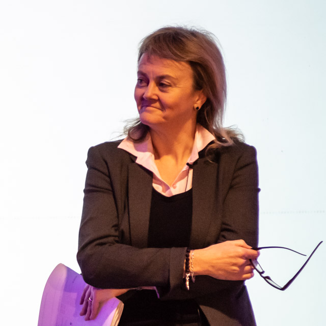 Professor Caroline Dive hosting a conference discussion in 2015